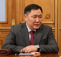 Head of the Government of the Republic of Tuva, Sholban Kara-ool at a meeting with Prime Minister of Russia Vladimir Putin